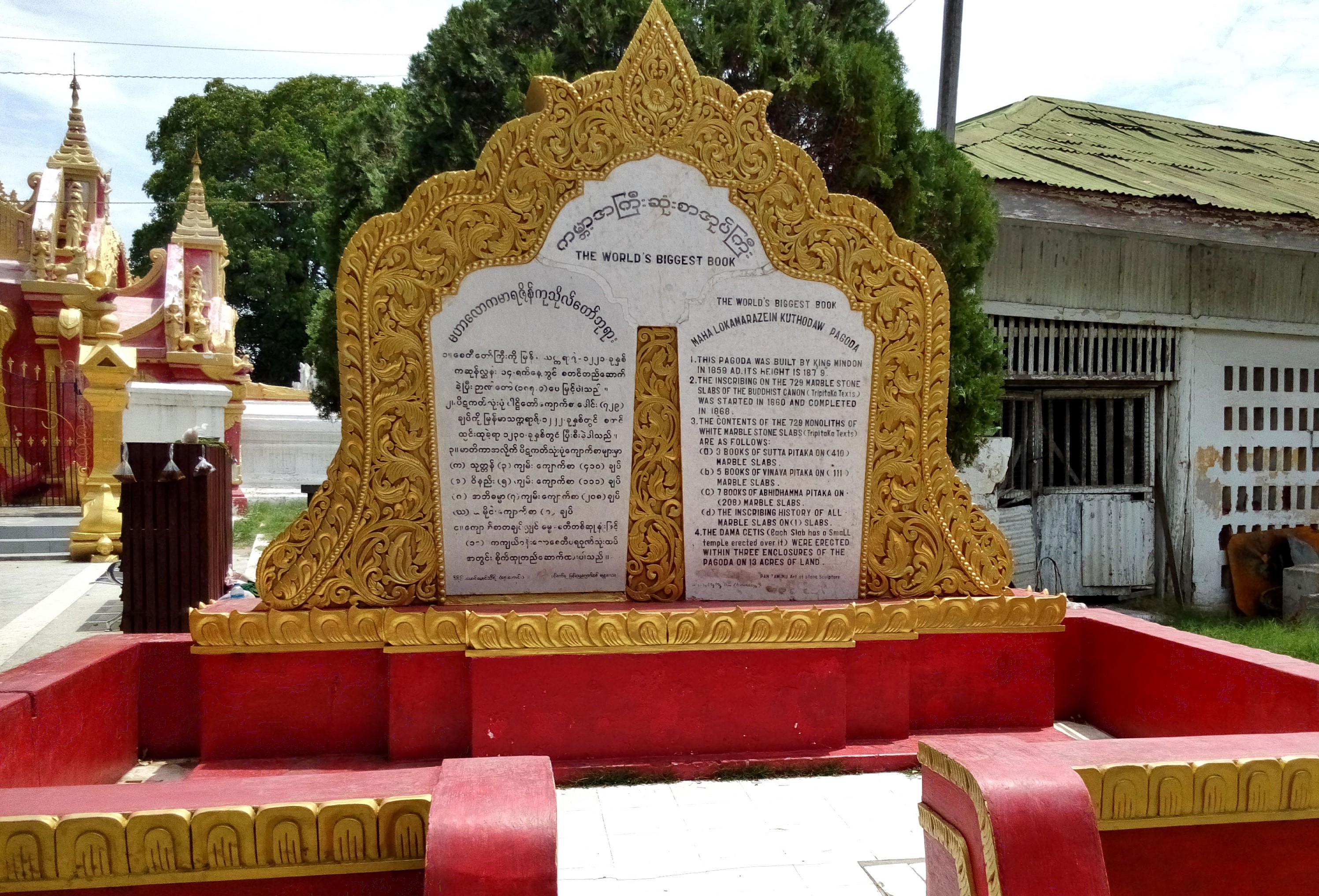 The World Largest Book, Maha Lokamarazein Kuthodaw Pagoda, Mandalay မြန်မာဘာသာ: ကမ္ဘာ့အကြီးဆုံးစာအုပ်၊ မဟာလောကမာရဇိန်ကုသိုလ်တော်ဘုရား၊ မန္တလေး